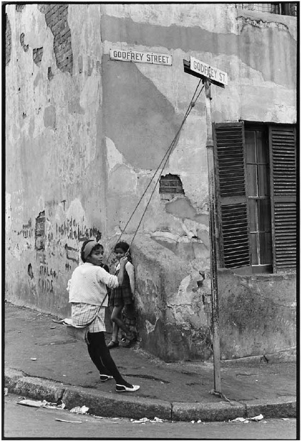 Godfrey Street District Six,1968